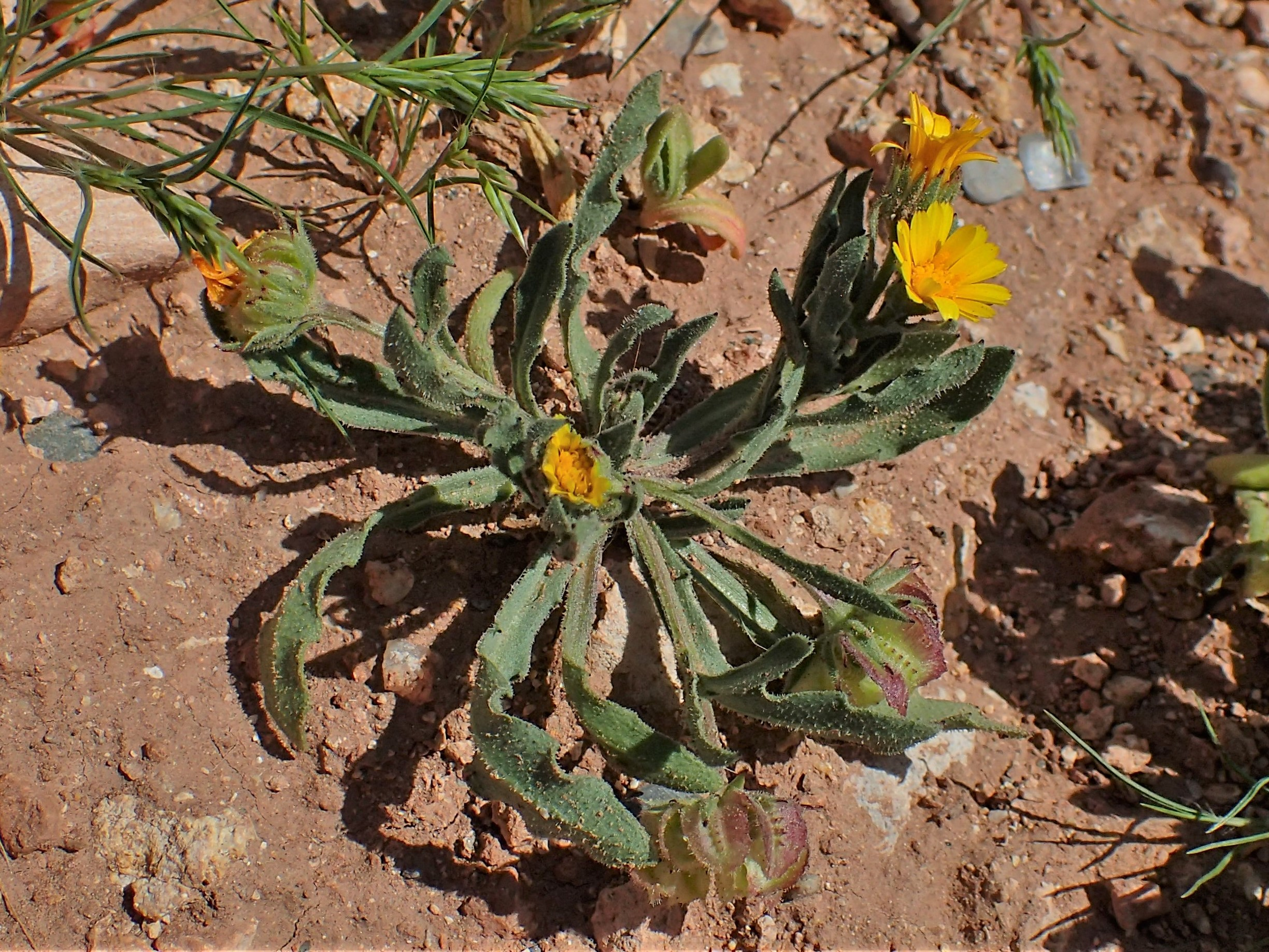 Calendula tripterocarpa in Saidate (Marrakesh-Safi, Morocco)